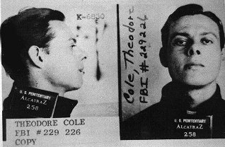 Theodore Cole, second inmate to attempt an escape at Alcatraz Island Federal Prison